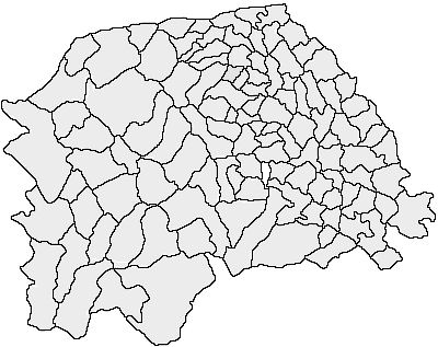 Map of administrative units in Suceava county, Romania.